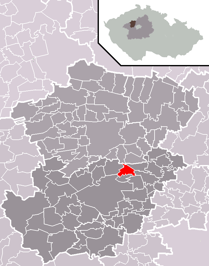 Location of Brandýsek municipality within Kladno District and administrative area of Kladno as a Municipality with Extended Competence.